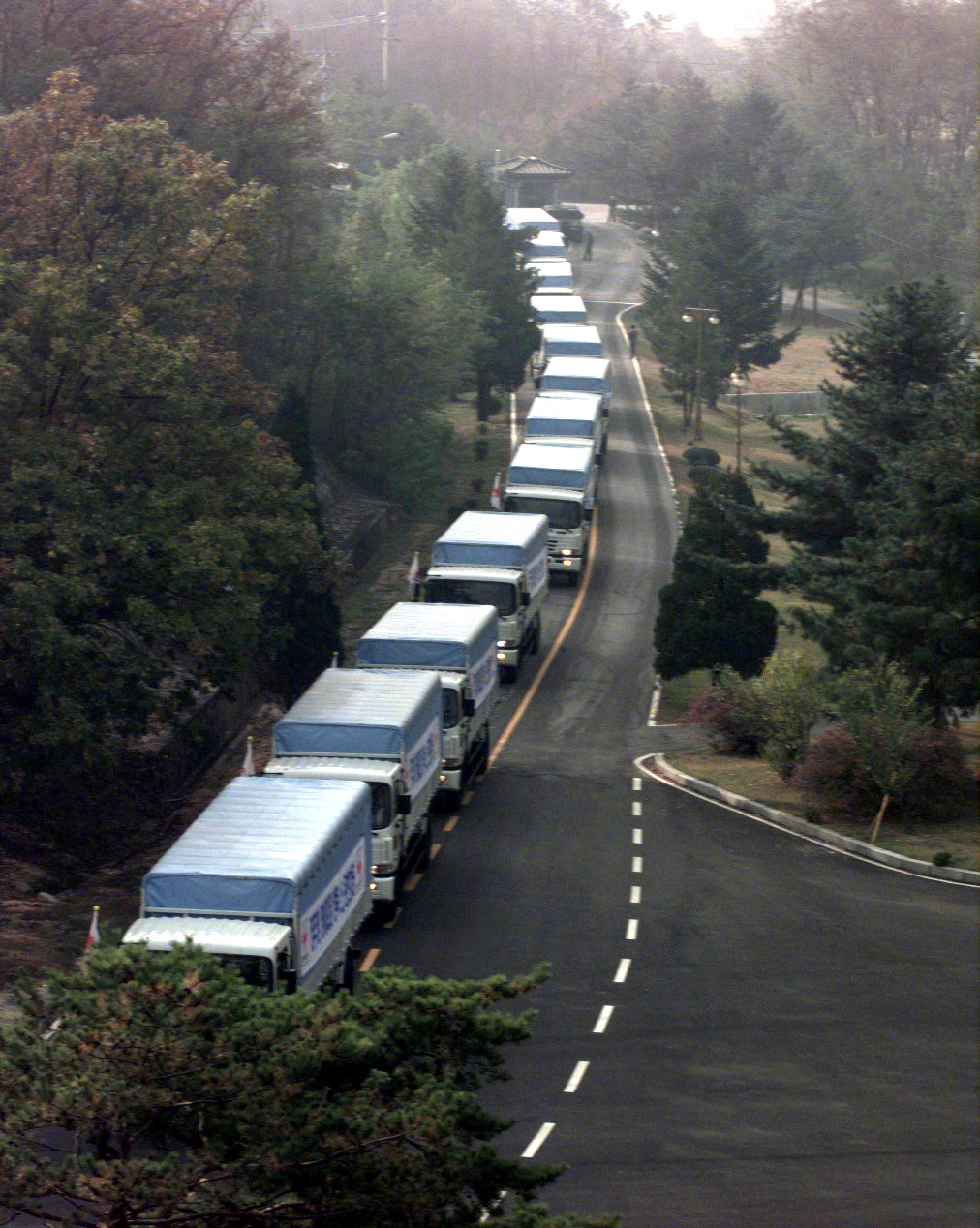 A caravan of 501 cattle and 50 vehicles enter Panmunjom, Republic of Korea, bound for the Democratic People's Republic of Korea, Oct. 27, 1998. South Korean business tycoon Chung Ju-yung, founder and honorary chairman of Hyundai Group, donated 501 head of cattle and the vehicles to the famine-stricken country. Mr. Chung had given the North Koreans 500 head of cattle earlier this year in June. Location: PANMUNJOM, DEMILITARIZED ZONE KOREA